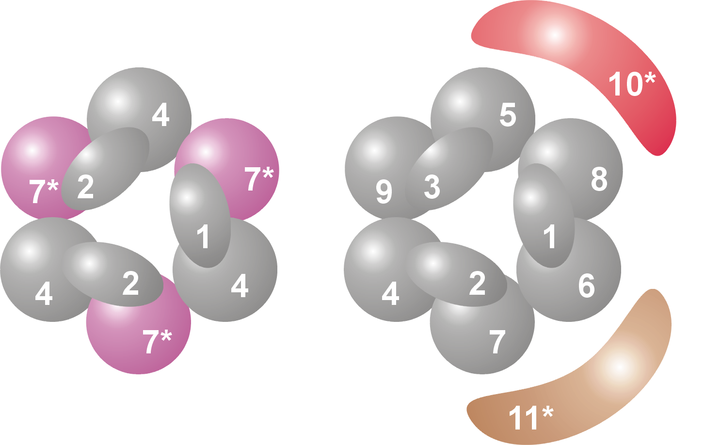 Archaeal (left), and eukaryotic (right) exosome complexes, with the catalytically active subunites marked in color and with a star.